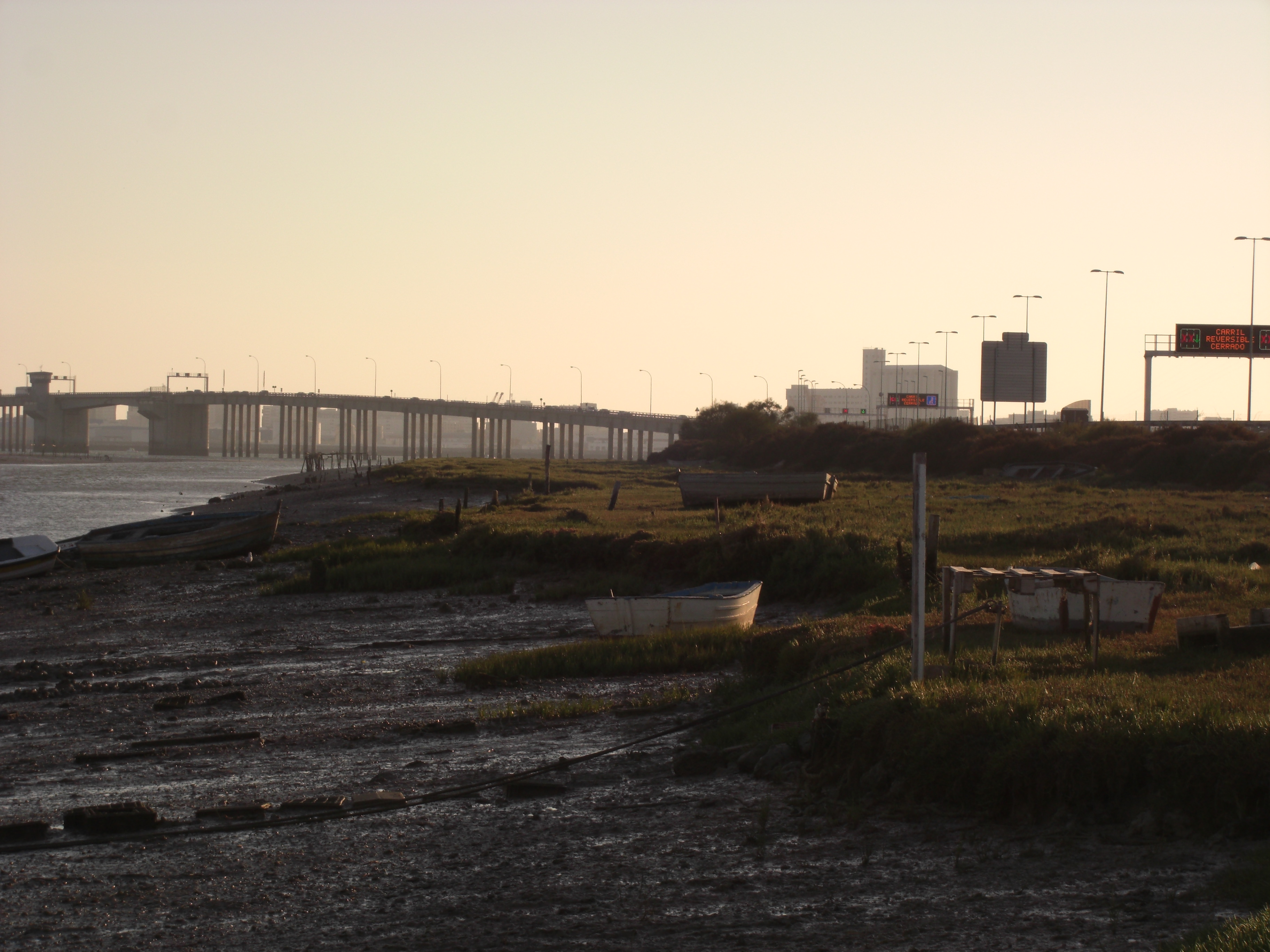 View of Carranza Bridge (Cadiz, Spain)